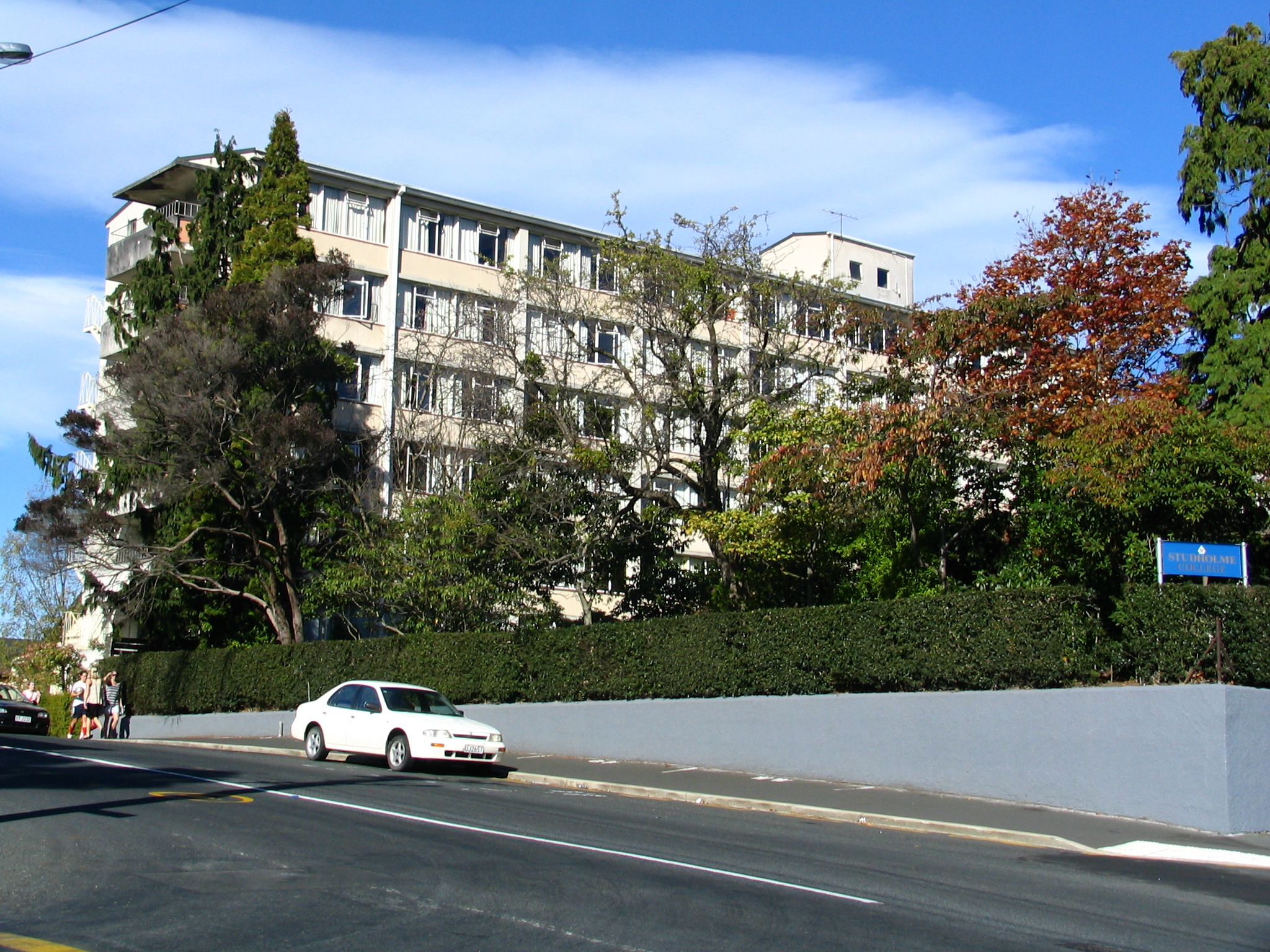 Studholme College building in Dunedin, New Zealand